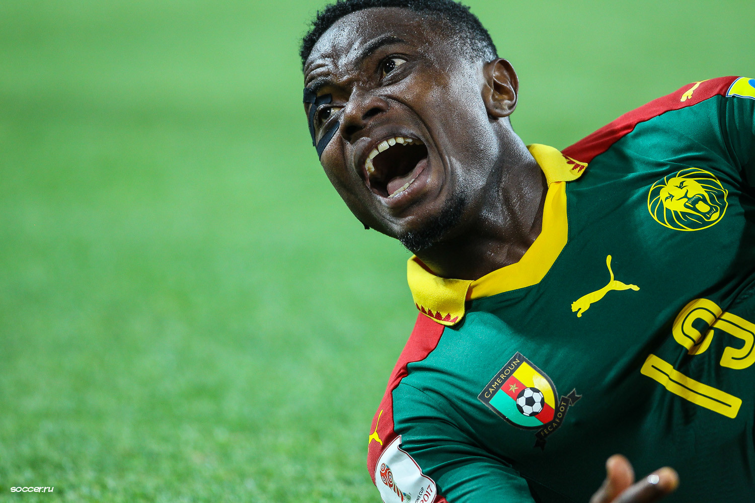 Cameroon vs Chile (0-2). FIFA Confederations Cup 2017